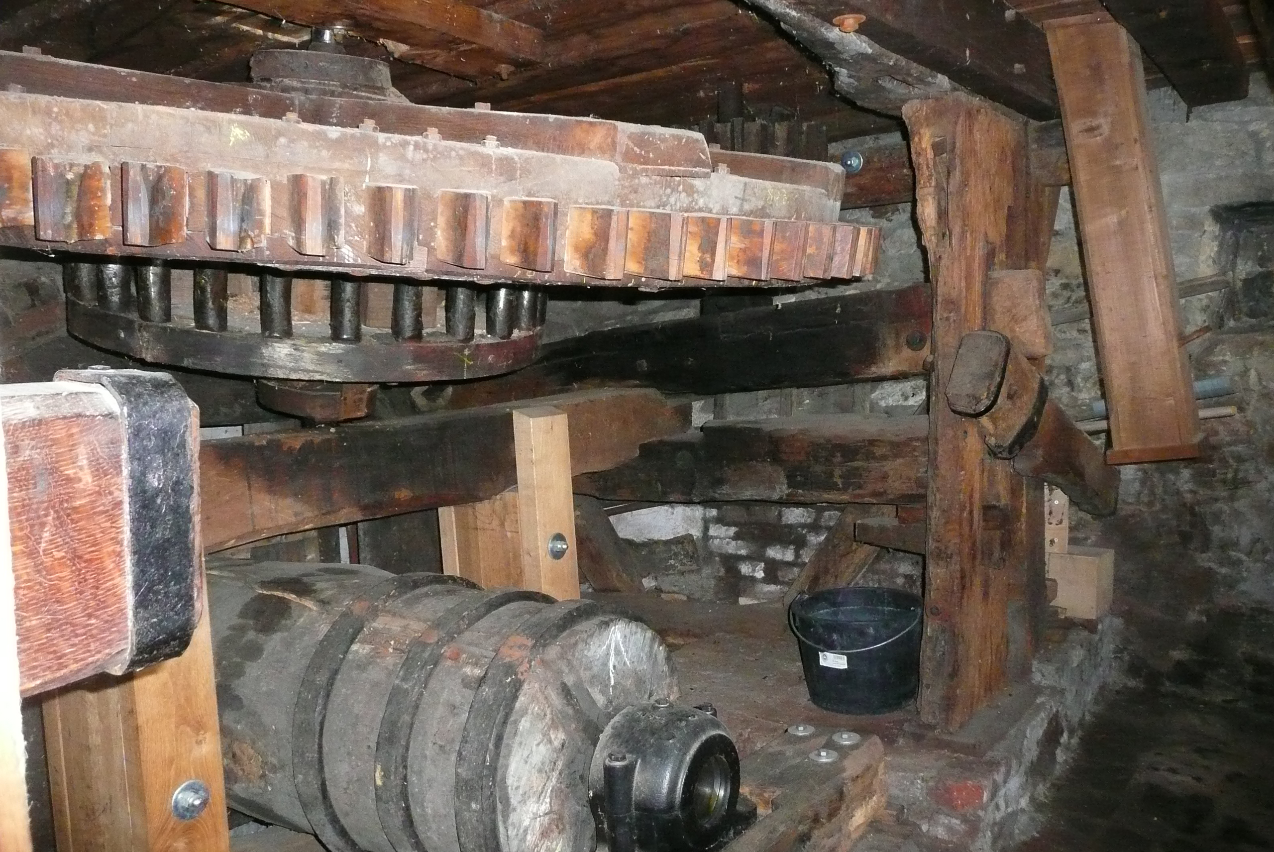 Inner part of so-called Welsche Muehle in Aachen-Haaren